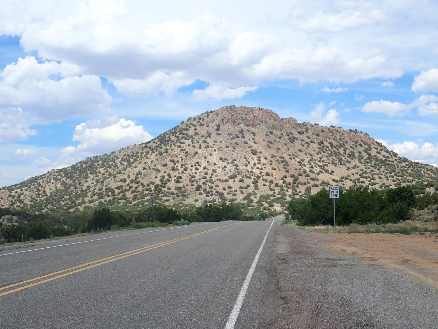 This image shows the southern end of Las Lomas de la Bolsa, a ridge system within the Ortiz Porphyry Belt, south of Madrid, New Mexico